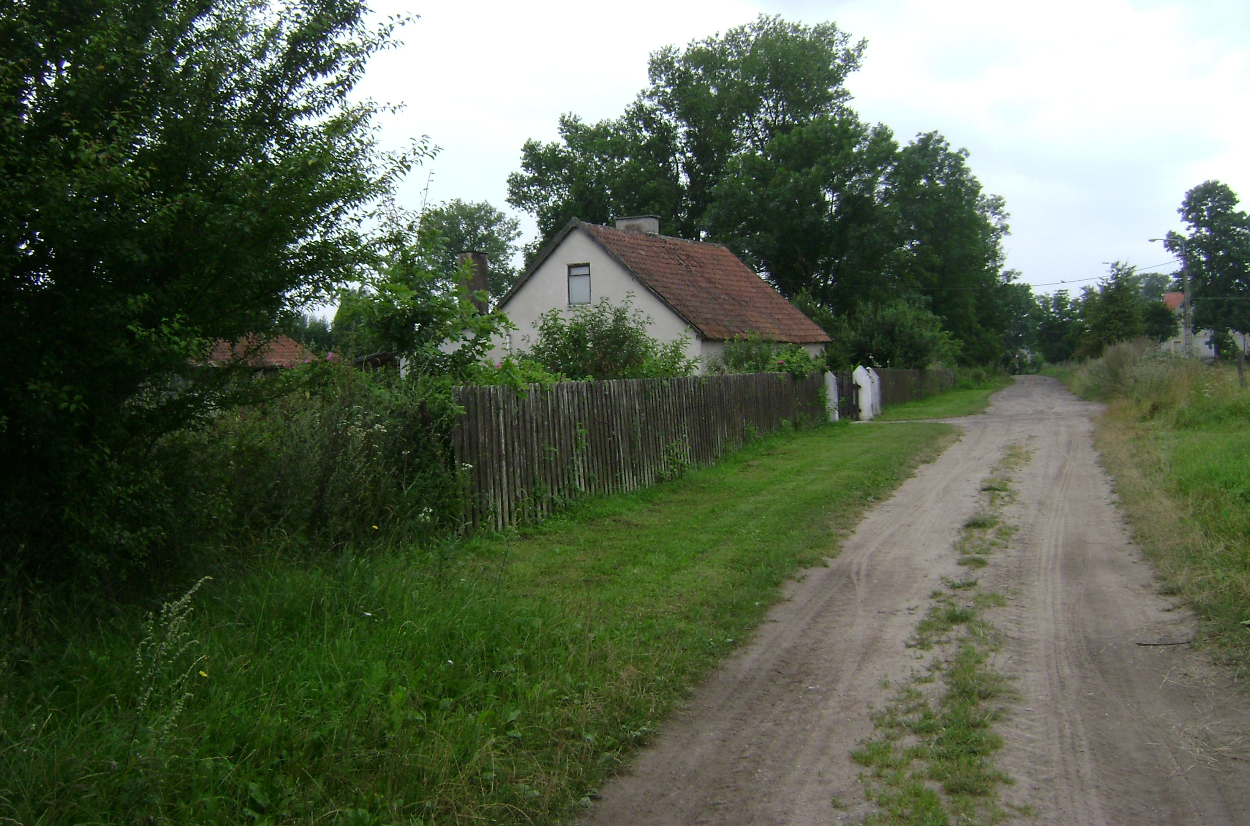 Narajty